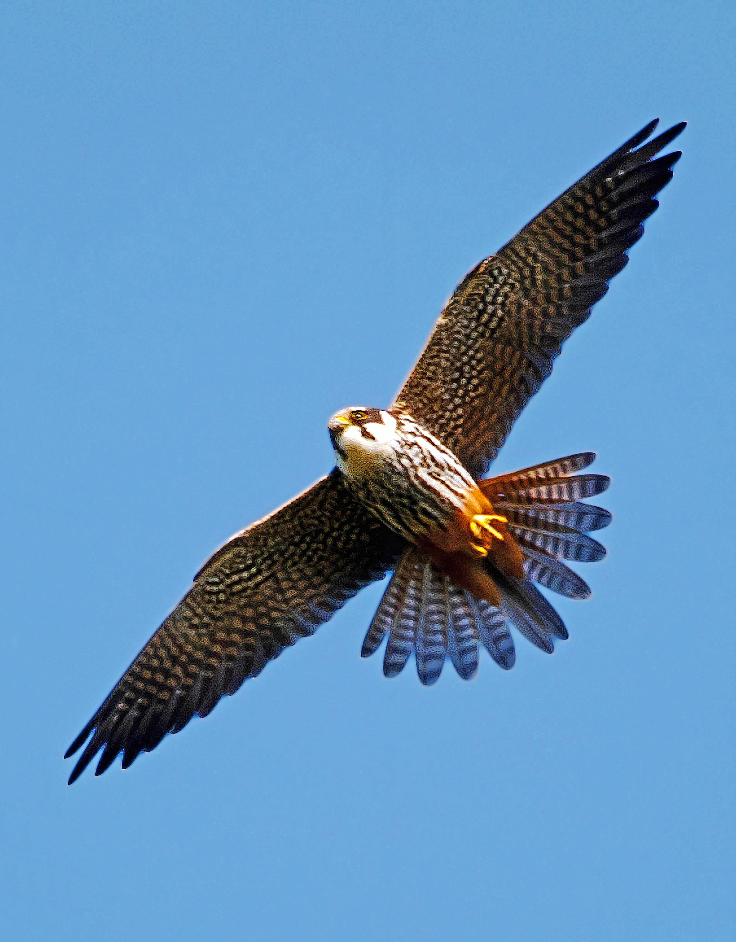 Eurasian hobby flying